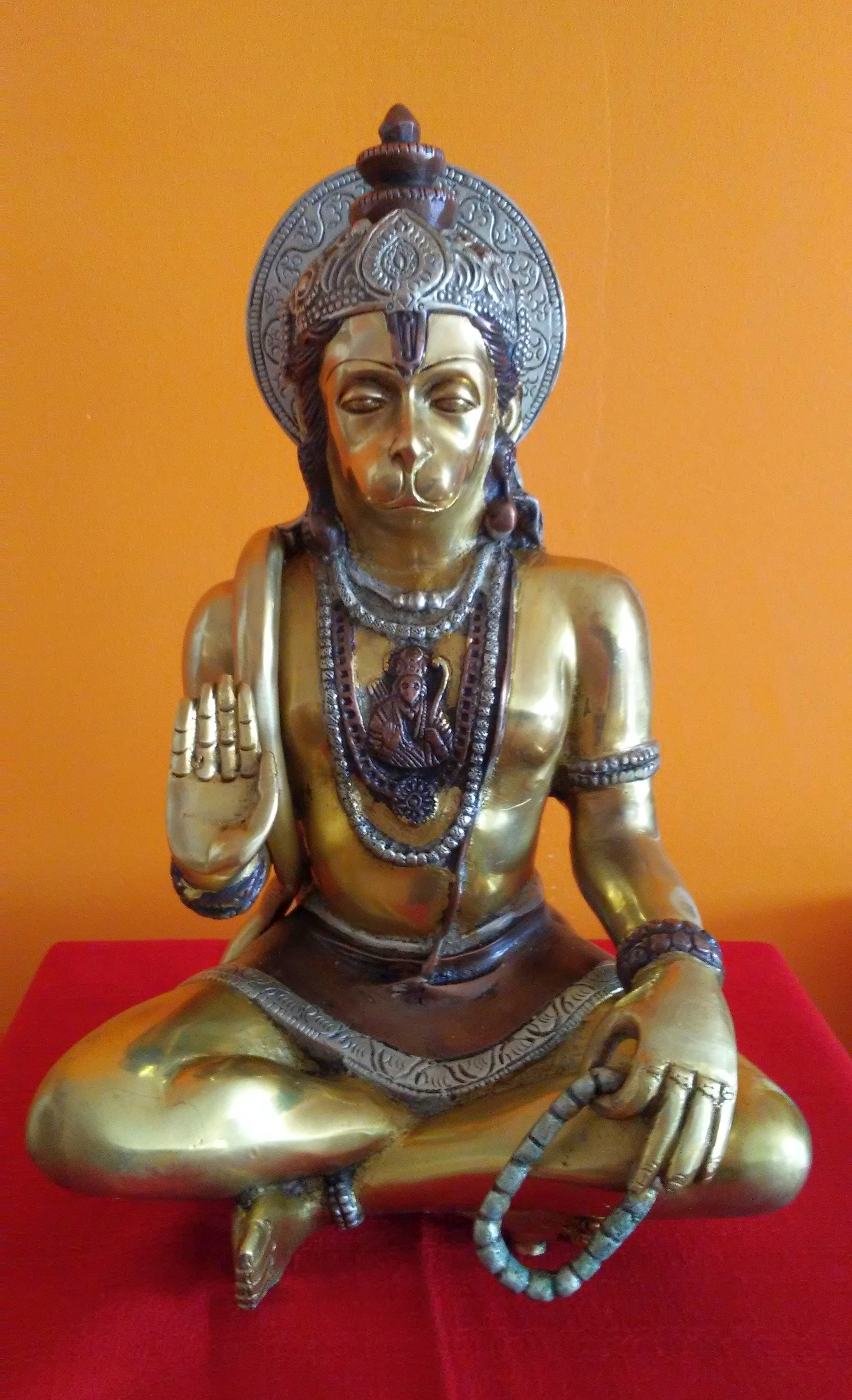 Hanuman murti in Sukhasana holding abhaya mudra (from the collection of Dr. Manoj Chalam, 2018)